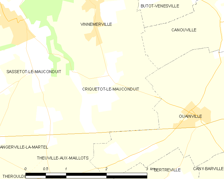 Map of French municipality Criquetot-le-Mauconduit